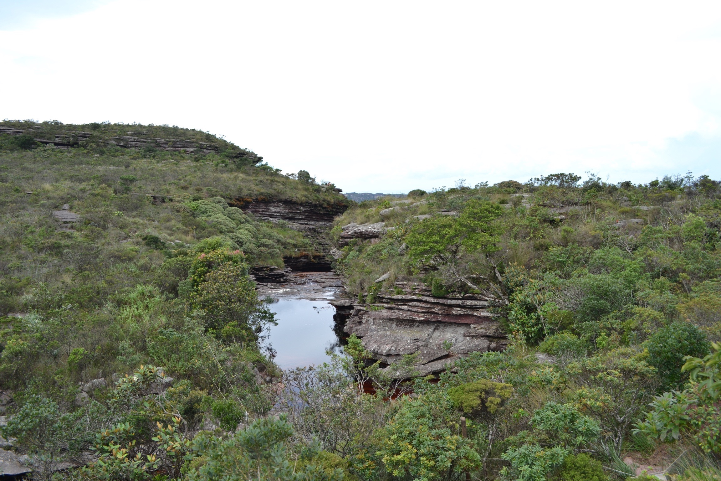 Photo taken at Chapada Diamantina in Bahia showing the shrubby vegetation typically occurring in the campo rupestre.